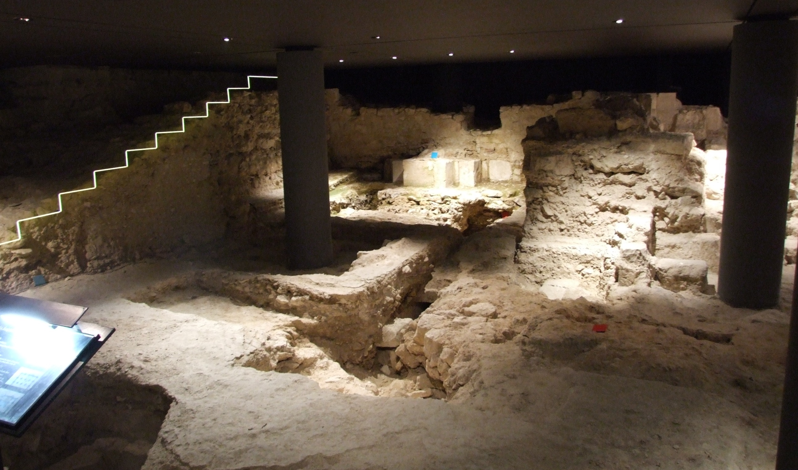 Saint-Germain abbey, Auxerre, Yonne, Burgundy, FRANCE